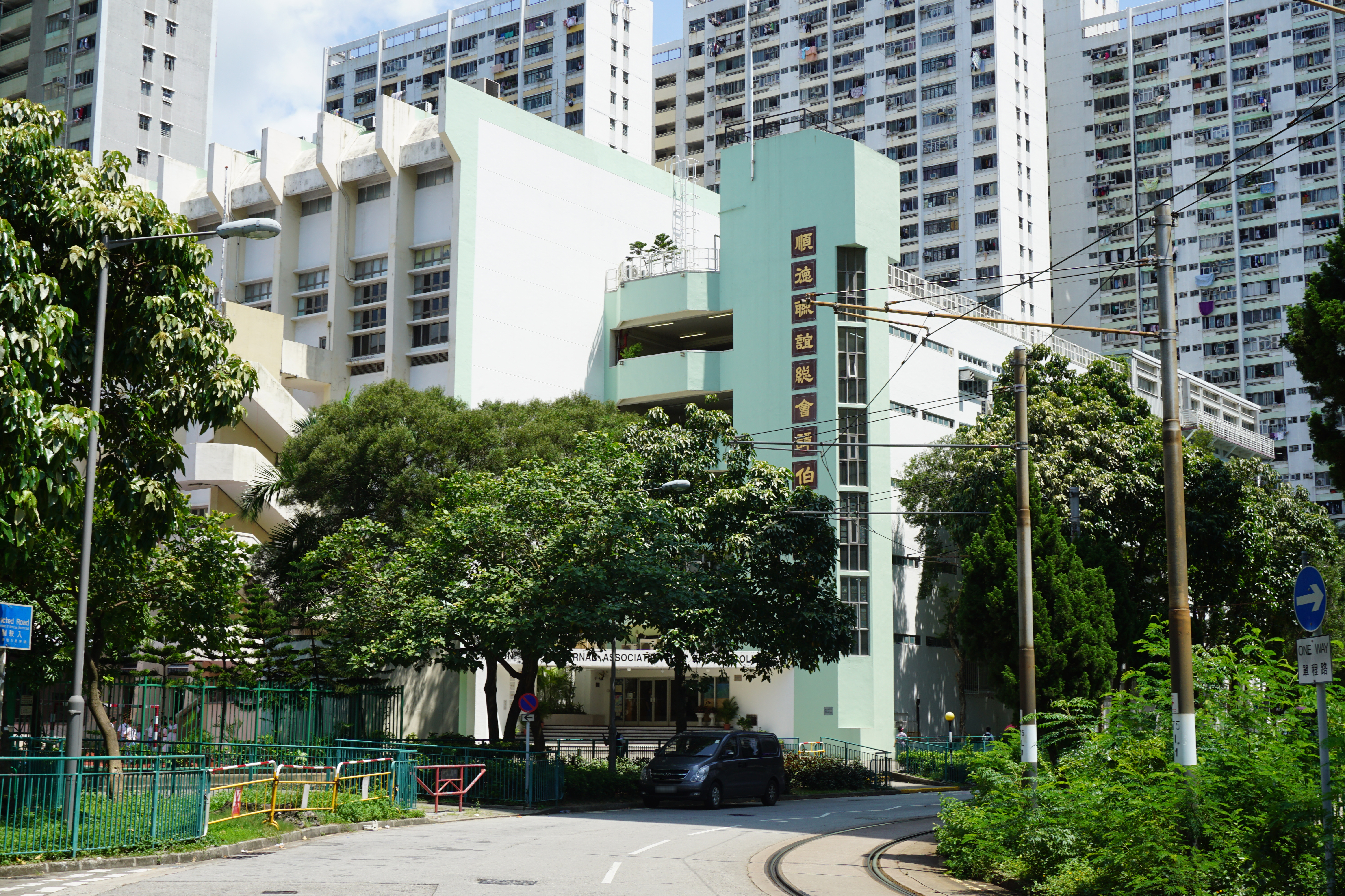 Shun Tak Fraternal Association Tam Pak Yu College in Tuen Mun, Hong Kong.